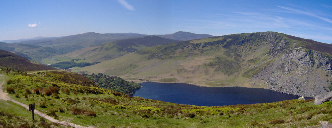 Luggala Mountain behind Lough Tay, in County Wicklow, Ireland.